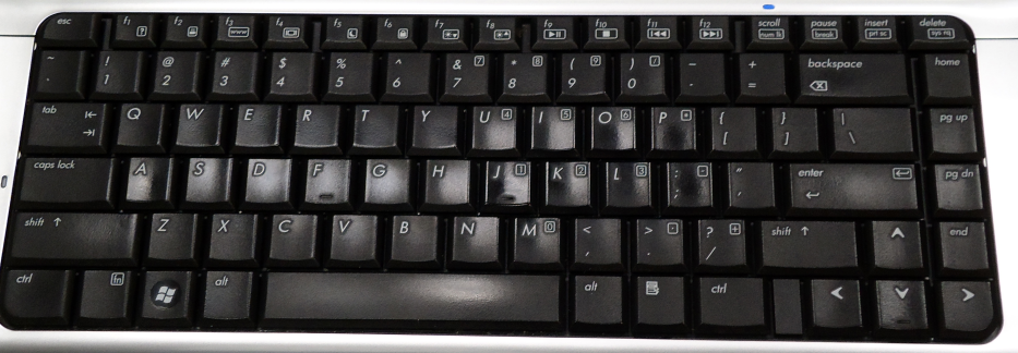 Image of a QWERTY keyboard that has been exclusively typed on using the English Dvorak layout for 3 years. Keys with heavy usage appear worn and reflect more light than lesser used keys. Here we see the majority of wear concentrated in the home row and right hand.